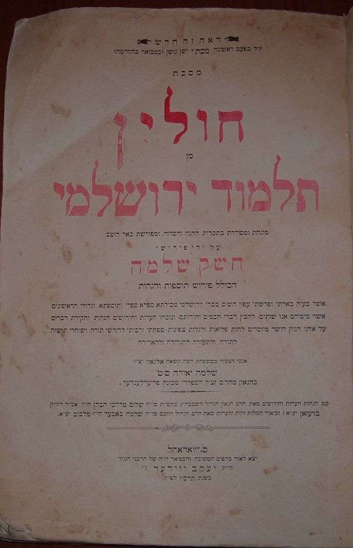 The Yerushalmi Talmud on Kodashim, claimed to have been discovered by Solomon Leb Friedlander and of which he published several tractates under the title Talmud Yerushalmi Seder Kodashim (Szinervaralja 1907-8), has been proved a forgery.